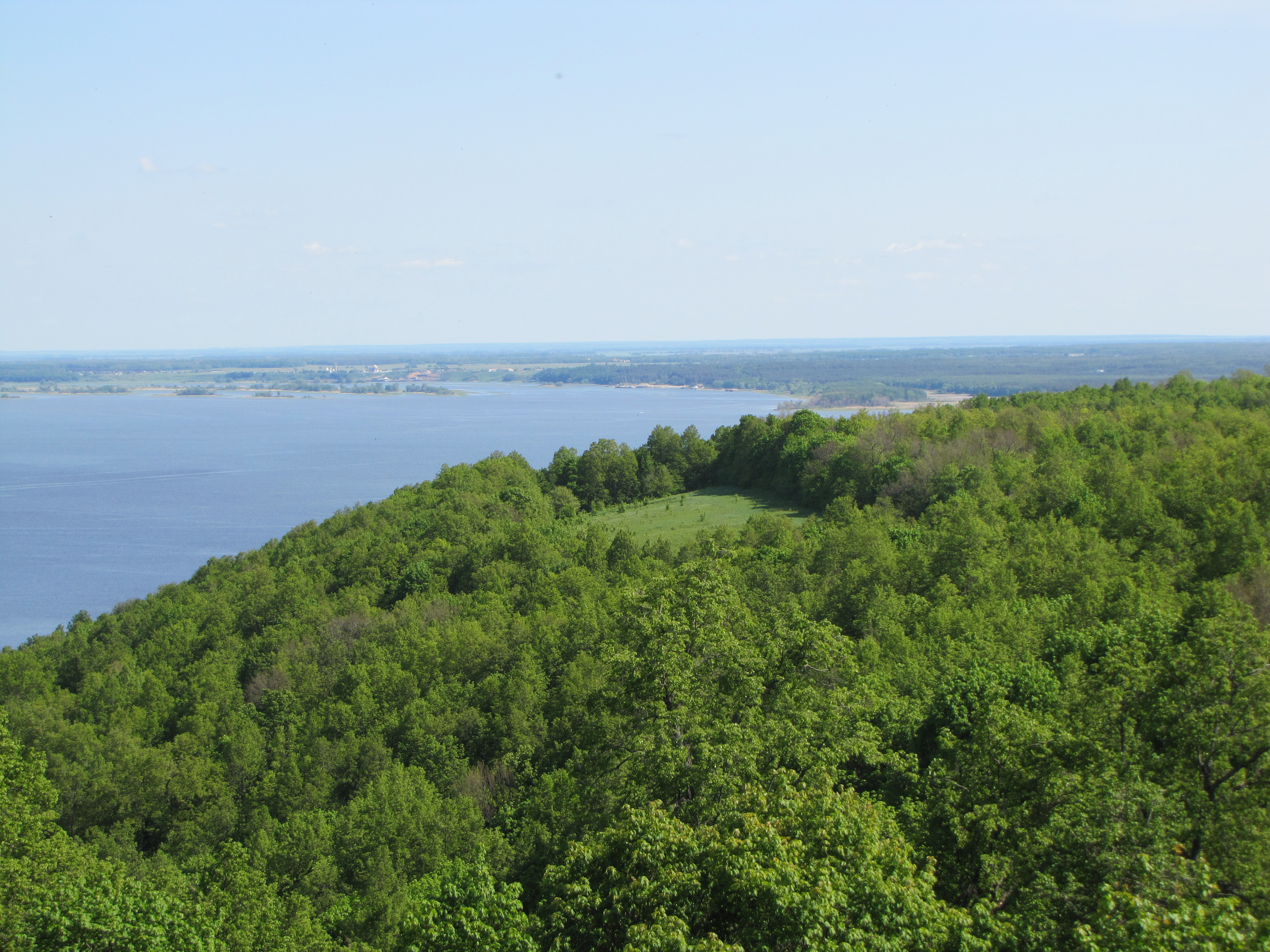 Dolgaya Polyana landscape